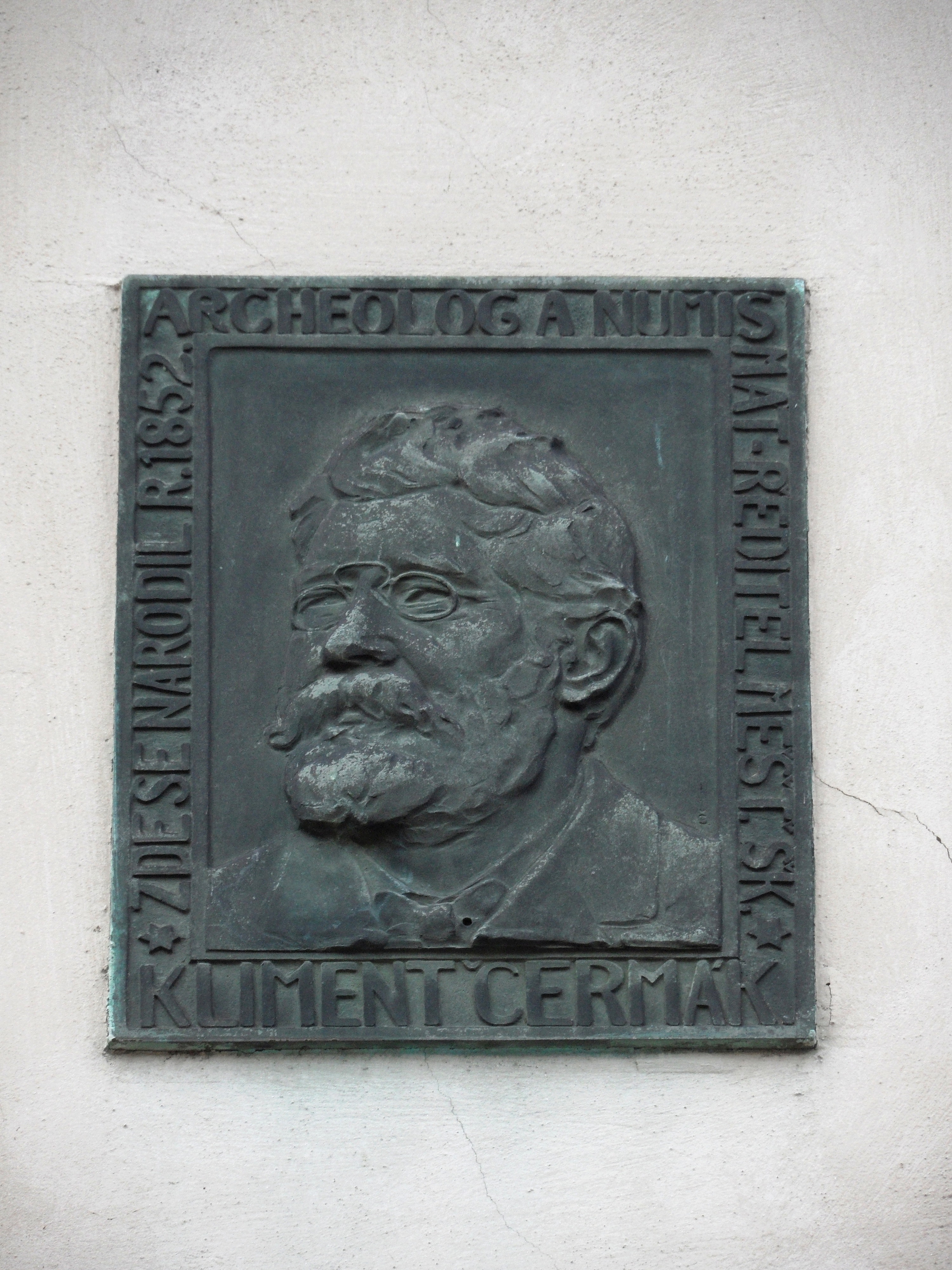 Čáslav, archeologist, numismatist, writer Kliment Čermák: Birthplace with Memorial Plaque (now Klimenta Čermáka 124/18). Kutná Hora District, the Czech Republic.